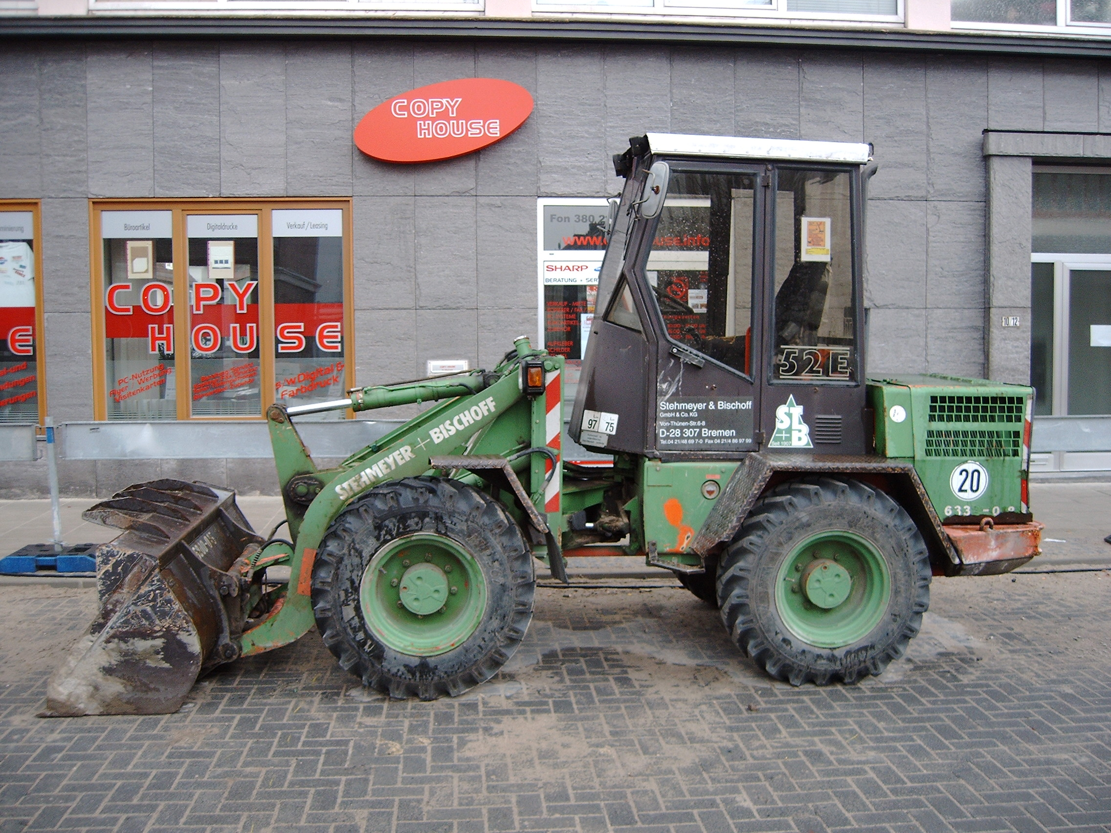 ATLAS 52E wheel front loader